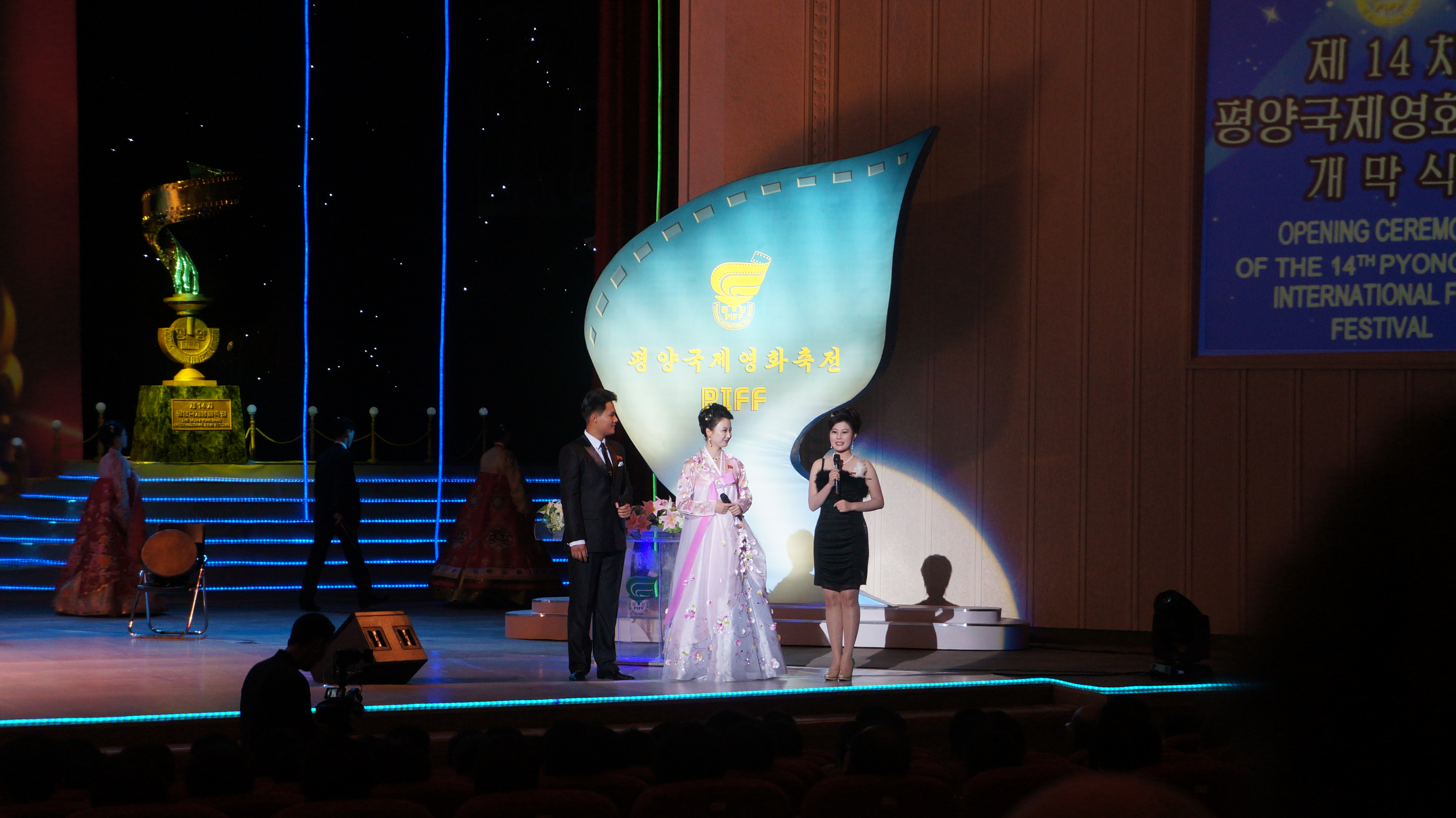 Opening ceremony - announcers moderated in both English and Korean